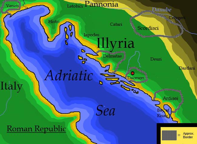 Map depicting the Adriatic Sea region in Pre-Roman time, showing several Illyrian tribes and the extent of the territory of some tribes.